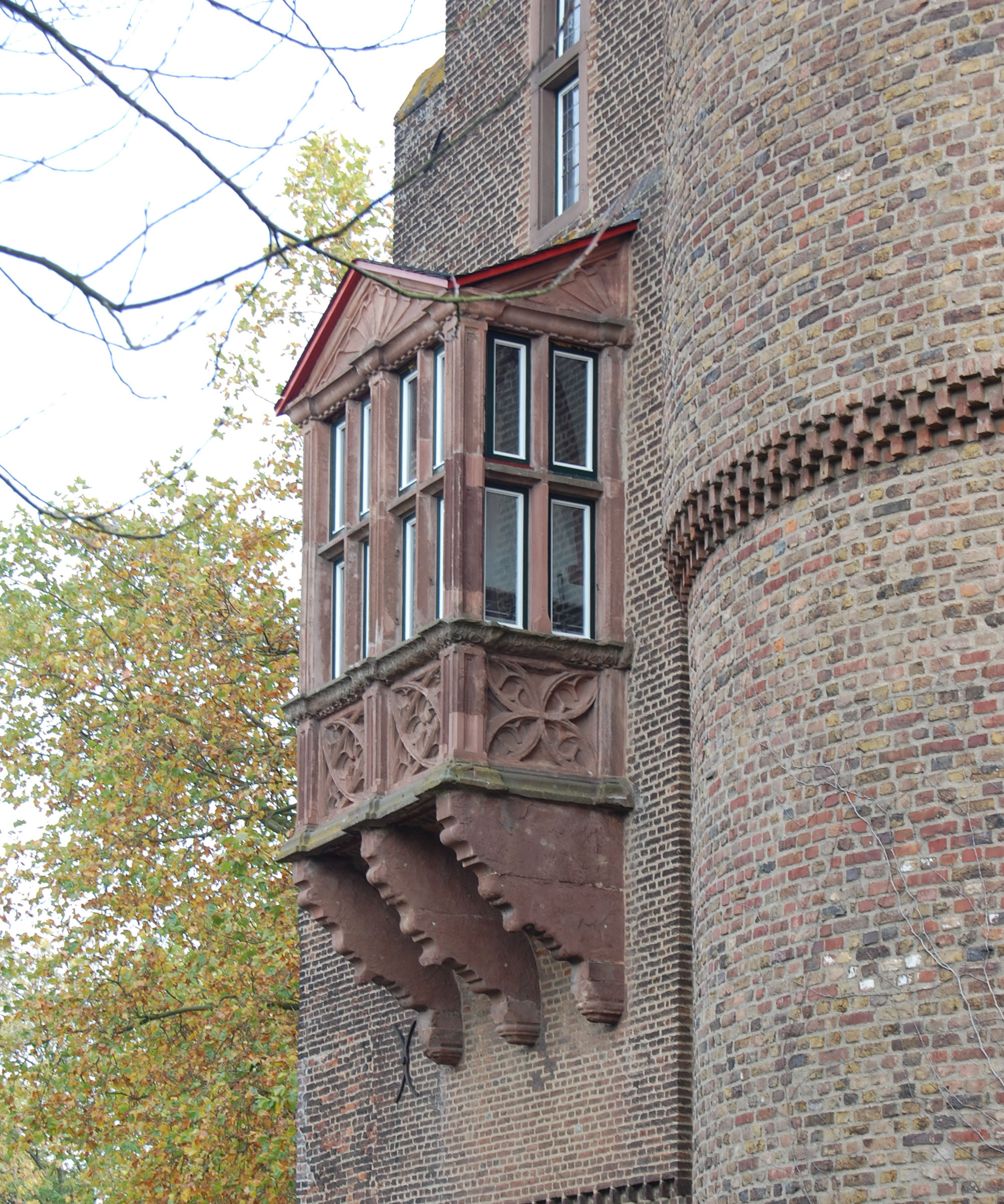 Picture from the village Konradsheim, Erftstadt, Germany